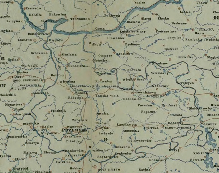 Okręg Przemyśl 1846